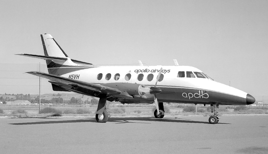 Apollo Airways at Concord in 1978.